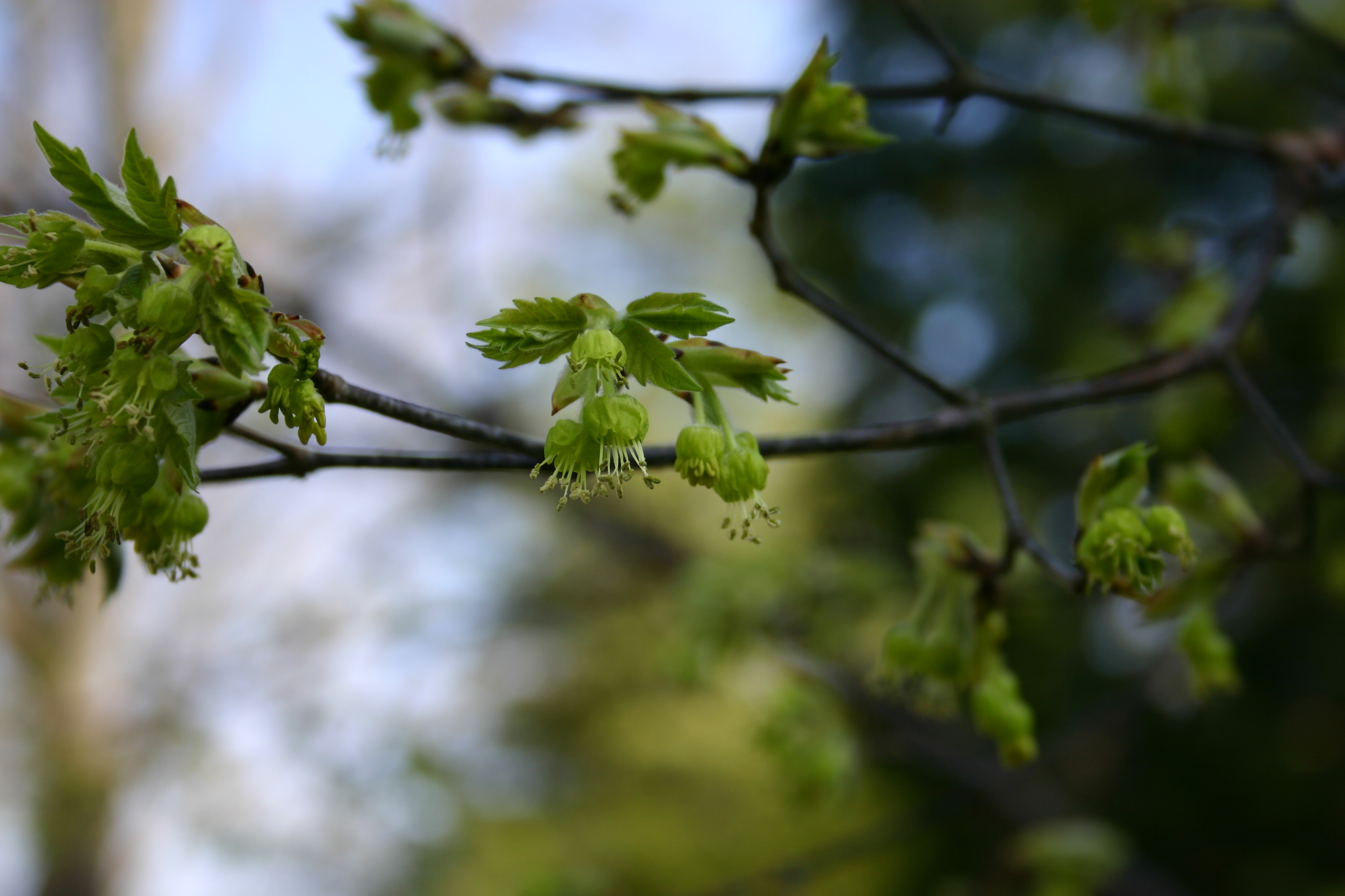 Flowers on Acer griseum